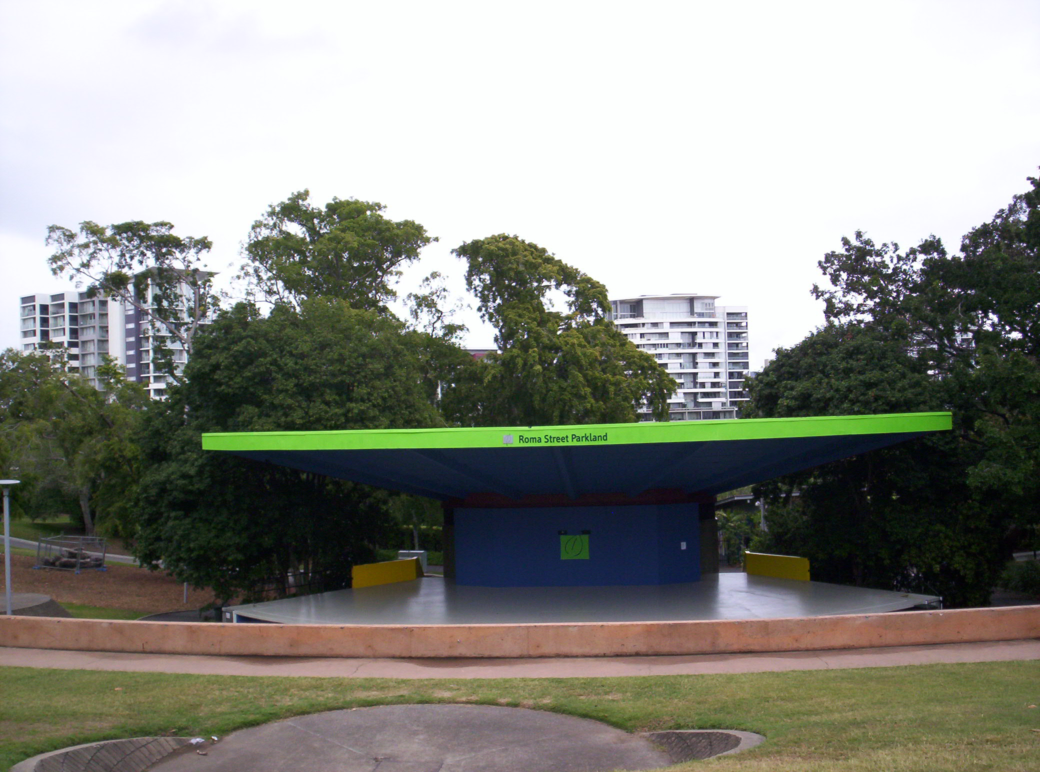 Roma Street Parkland Amphitheatre